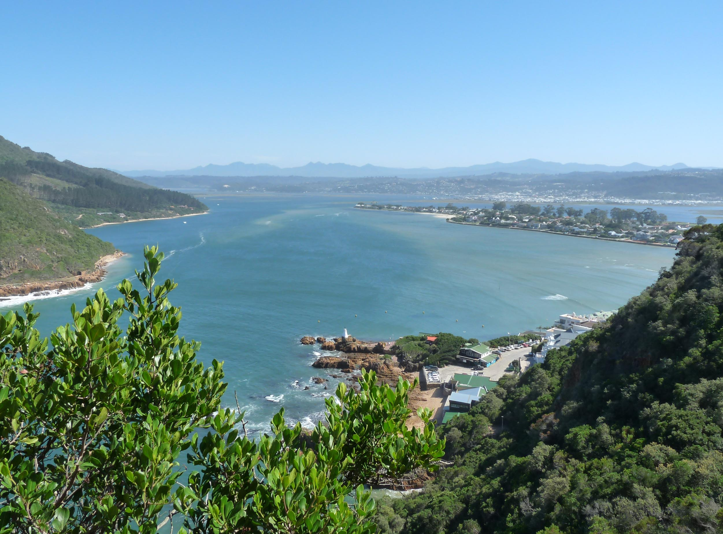 Knysna from Heads 01